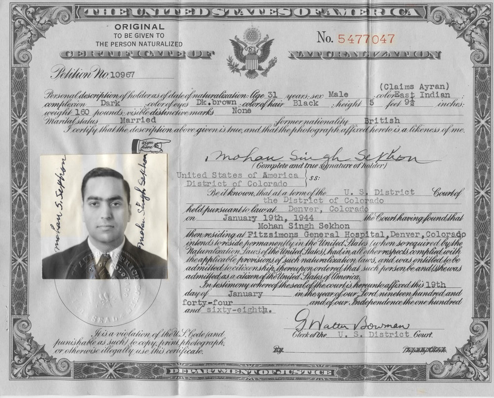 Mohan Singh Sekhon's naturalization certificate